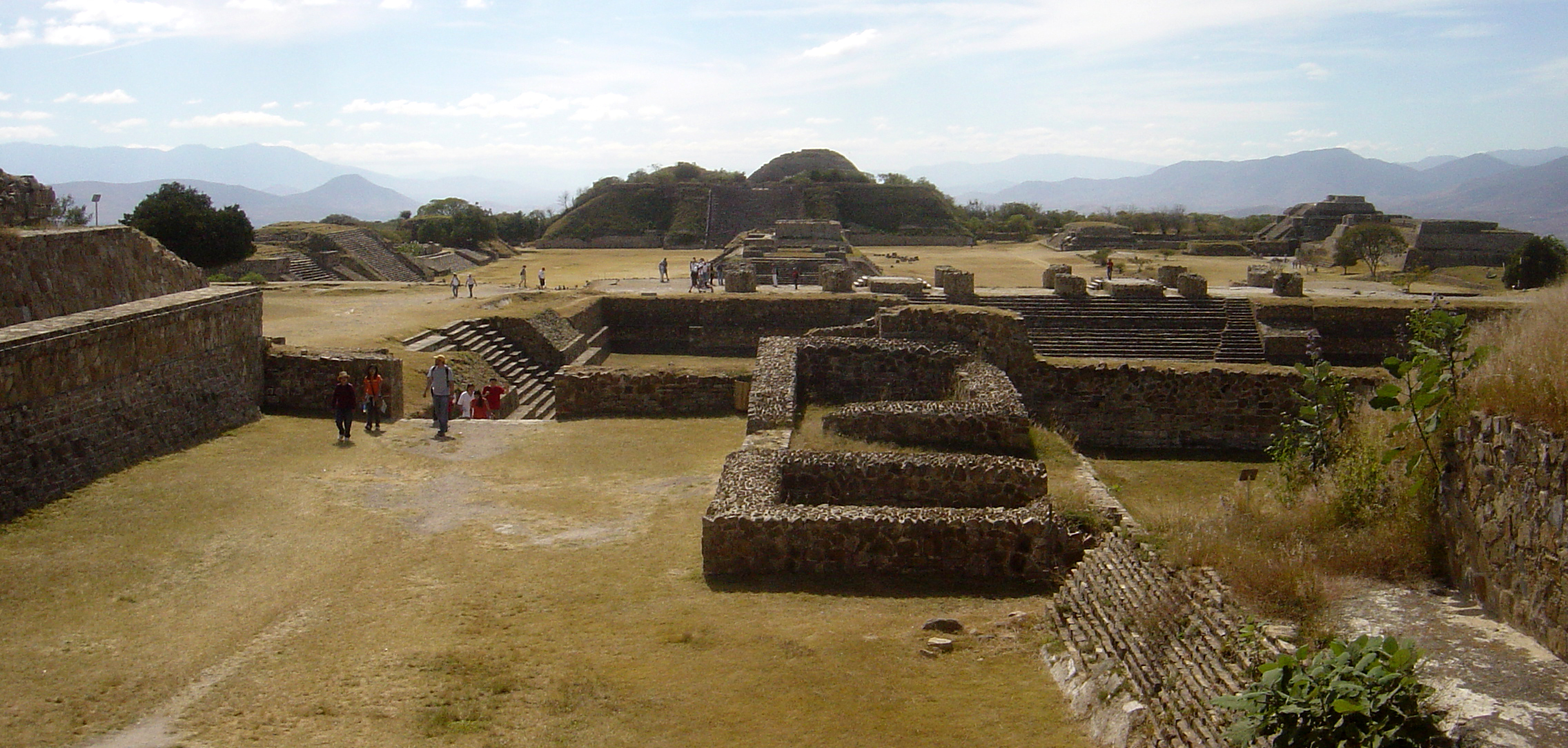 Monte Alban. Please observe license and properly cite in use outside Wikipedia. This photo was moved from english Wikipedia. It was taken from the Monte Albán article of that wikipedia.